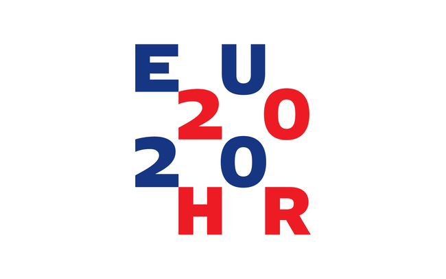 Logo "Croatian Presidency of the Council of the European Union 2020" Licensing The depicted text is ineligible for copyright and therefore in the public domain, because it is not a “literary work” or other protected type in sense of the local copyright law. Facts, data, and unoriginal information which is common property without sufficiently creative authorship in a general typeface or basic handwriting, and simple geometric shapes are not protected by copyright. This tag does not generally apply to all images of texts. Particular countries can have different legal definition of the “literary work” as the subject of copyright and different court's interpretation practices. Some countries protect almost every written work, while other countries protect distinctively artistic or scientific texts and databases only. Extent of creativeness, function and length of the text can be relevant. The copyright protection can be limited to the literary form – the included information itself can be excluded from protection.